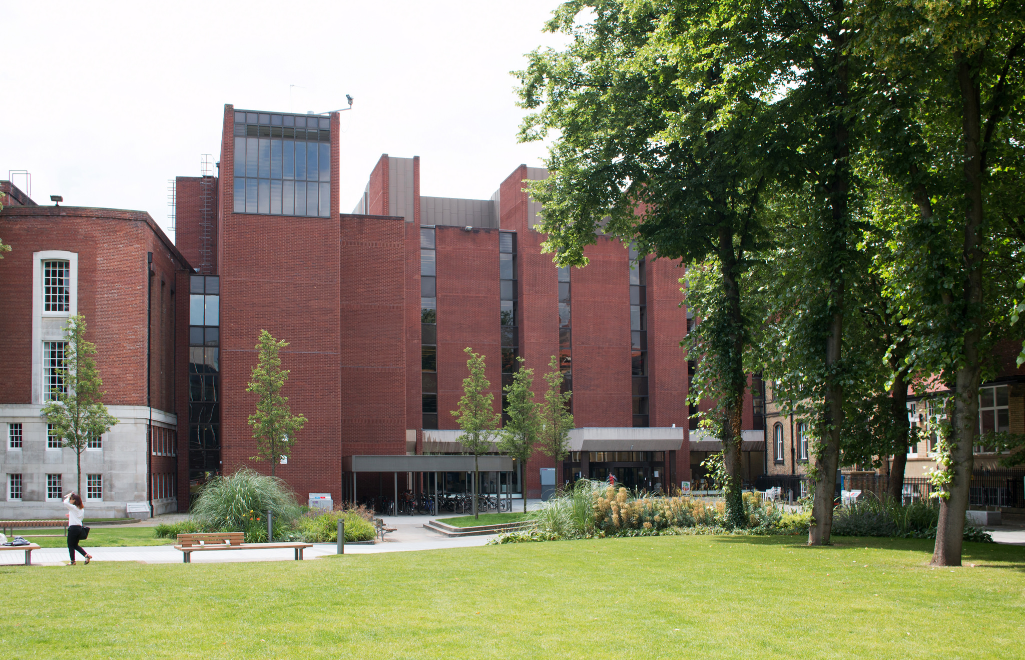 Photograph of the main entrance to the University of Manchester Library's Main Library in June 2014